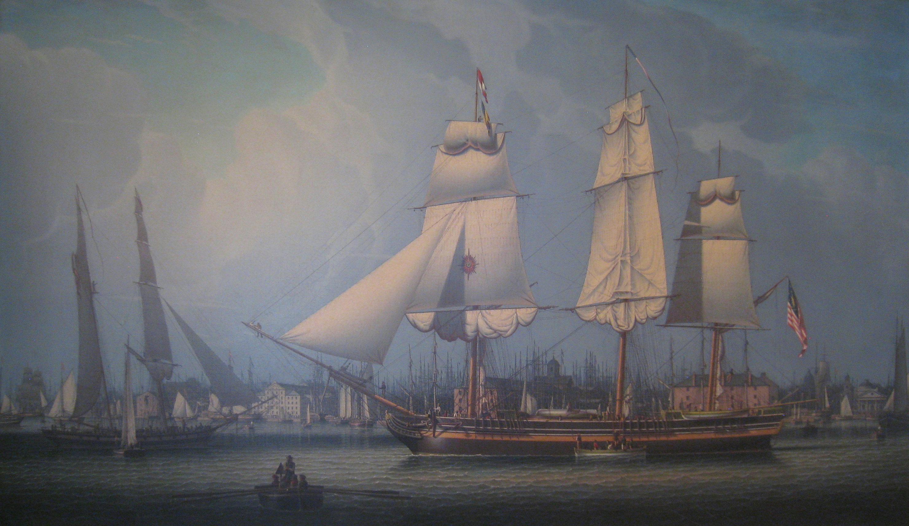 'Wharves of Boston' by Robert Salmon, 1829 - Old State House Museum, Boston, Massachusetts, USA.